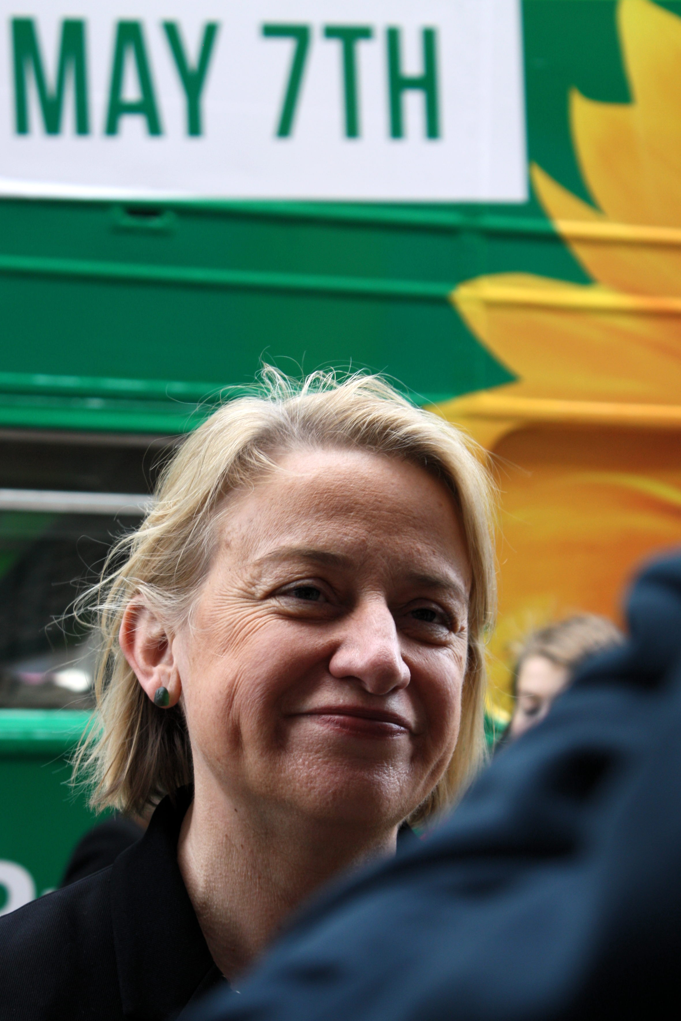 Natalie Bennett campaigning in Cambridge during the general election of 2015.